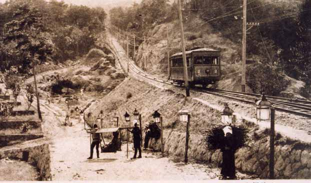 Ikoma cablecar just after its completion. The cablecar was operated by Osaka Electric Tramway (current Kintetsu).